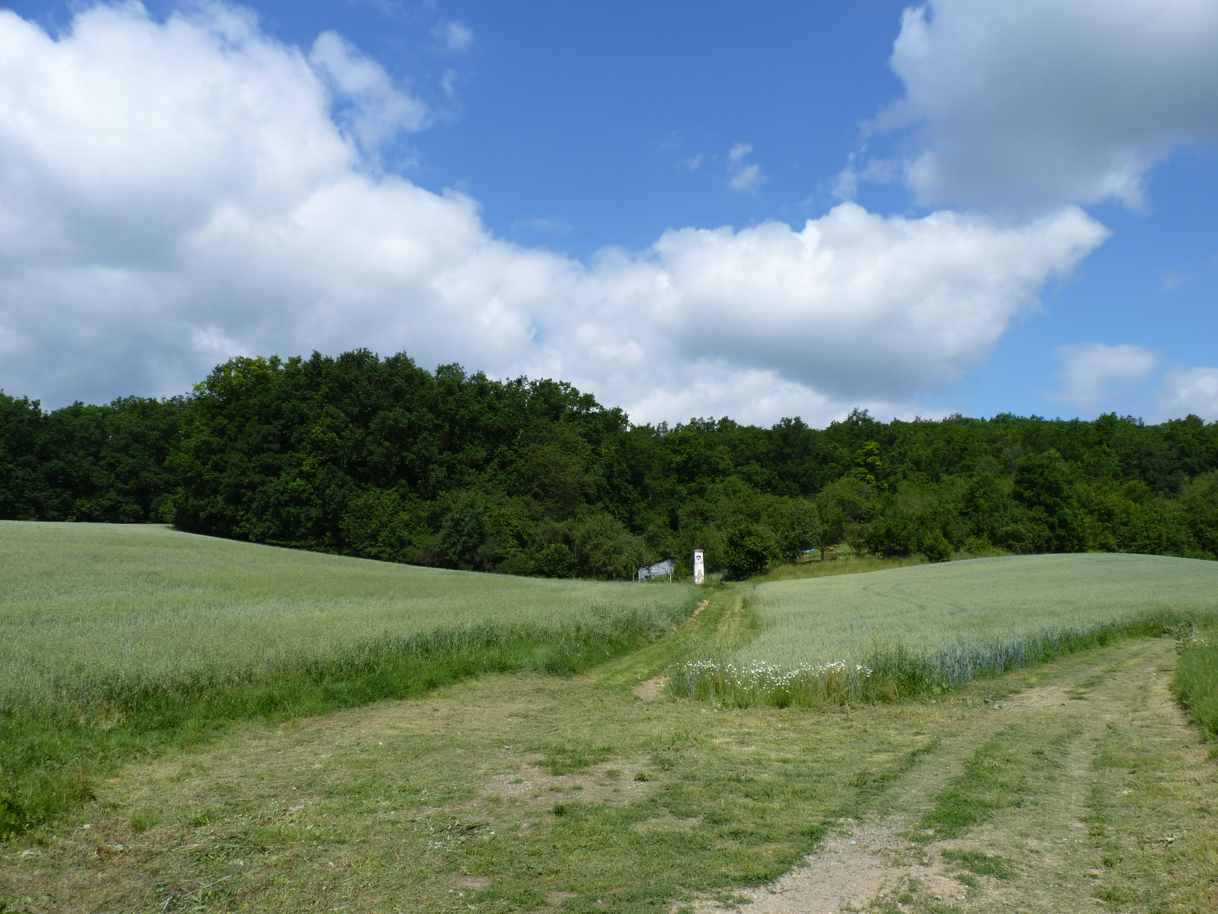 Zlobice, natural monument in Brno-Country District, South Moravian Region, Czech Republic Project: Chráněná území